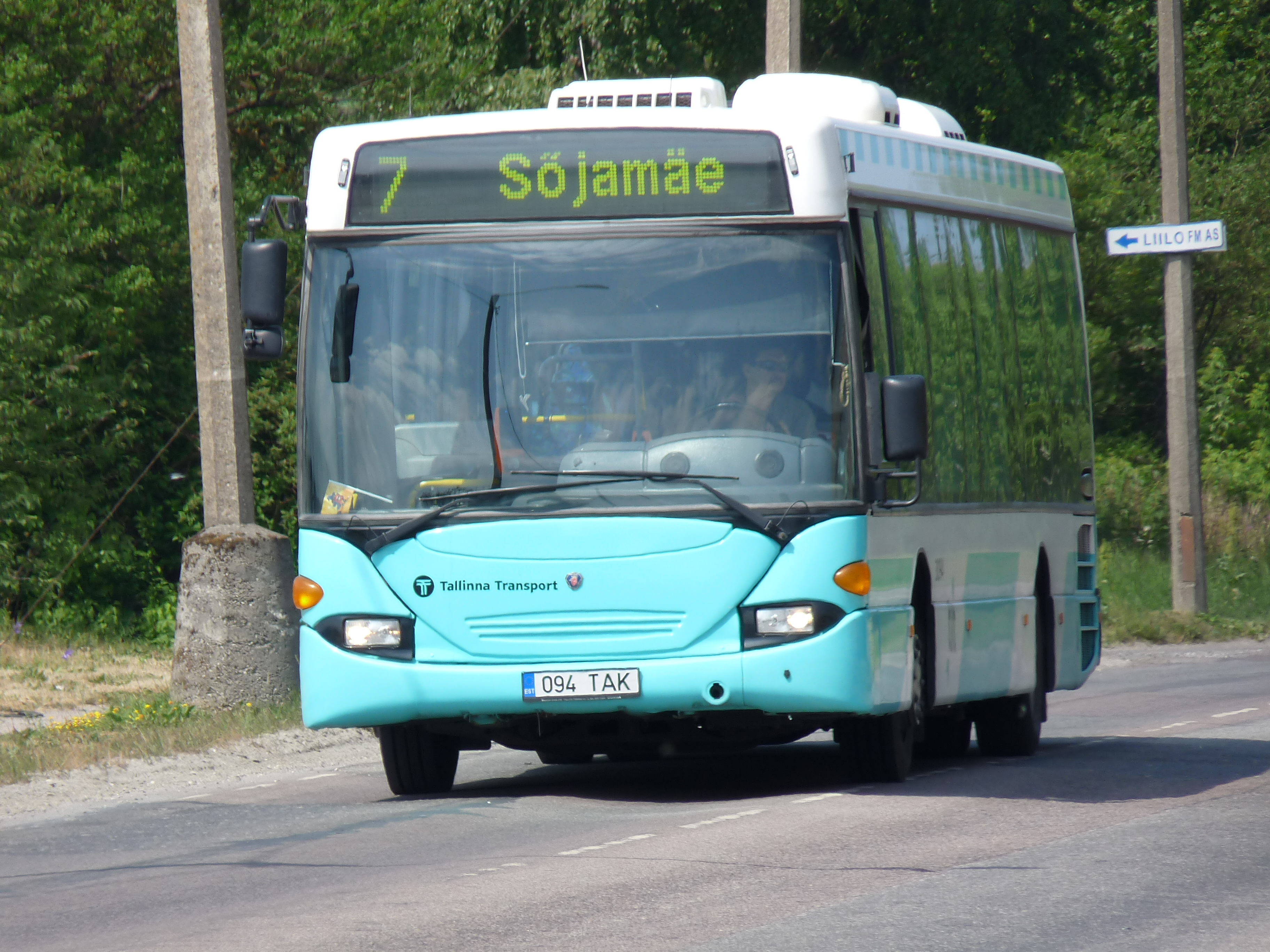 Public bus in Tallinn, Estonia